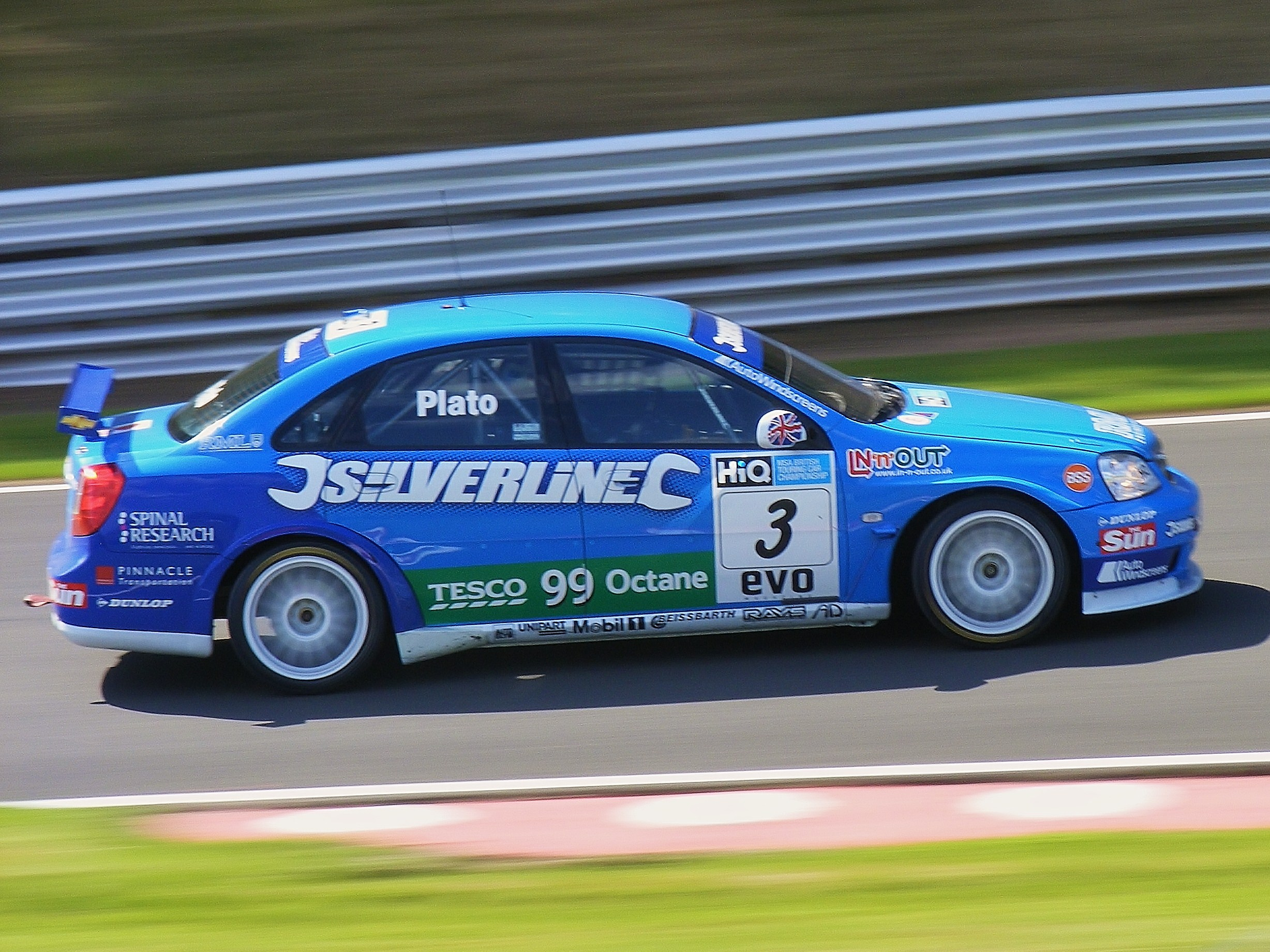 Jason Plato during a qualifying session at Oulton Park.